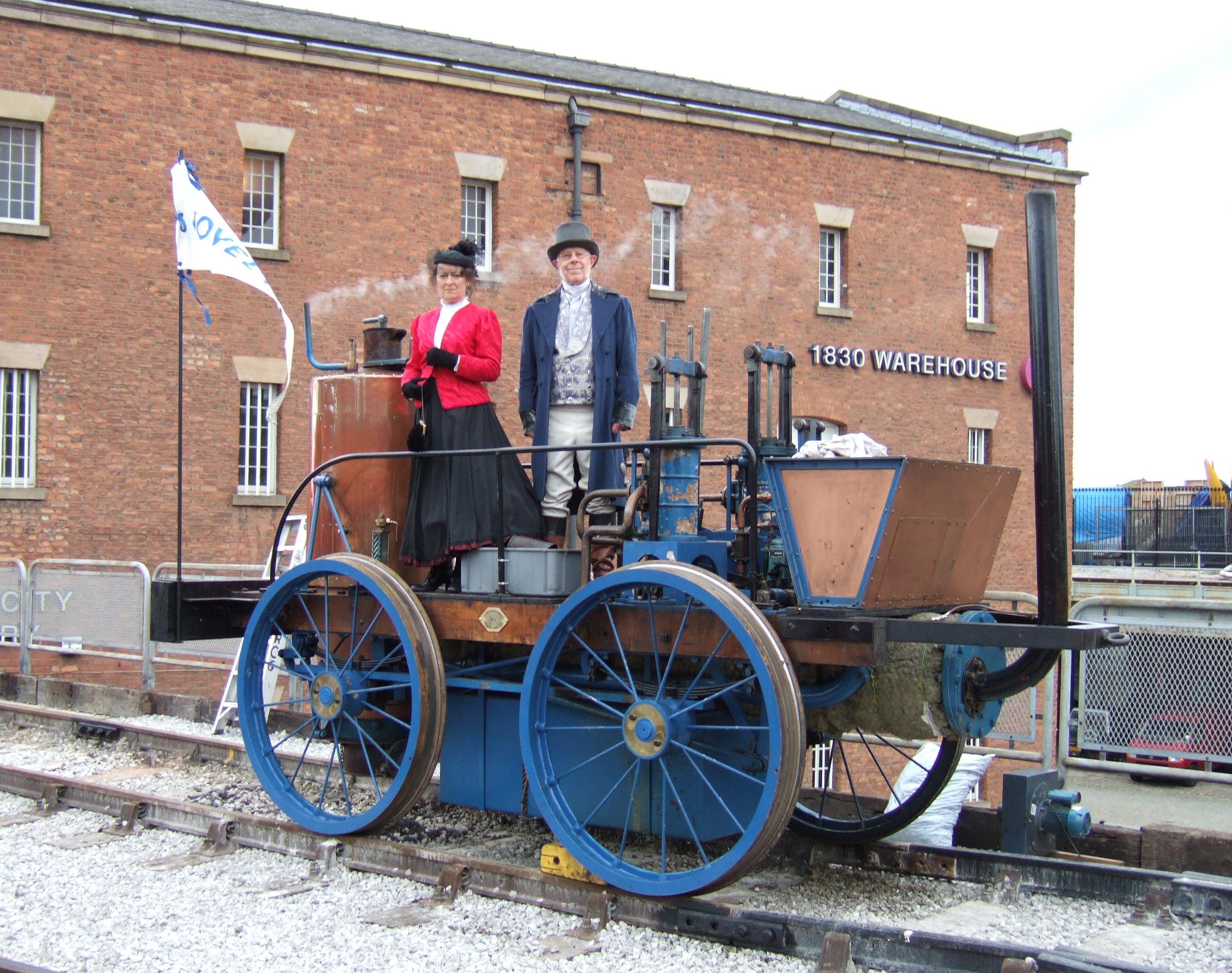 Working replica of Novelty at the Museum of Science and Industry, Manchester. Standing on the locomotive are Mr & Mrs Braithwaite, Mr Braithwaite is a descendant of the locomotive builder.